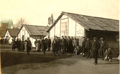 Camp Oddo in Marseille, with Armenian refugees